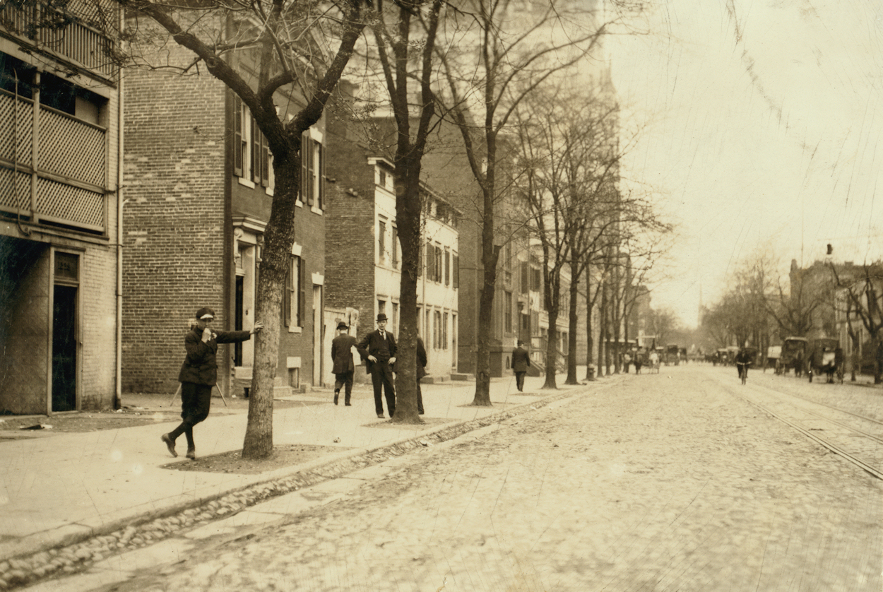 The "red light district" known as Murder Bay at the corner of C Street NW and 13th Street NW, Washington, D.C., United States, in April 1912. *Griffin Veatch, a "night messenger" or child laborer who directed customers to brothels, is leaning against the tree at left. Photograph by Lewis W. Hine for the U.S. National Child Labor Committee.